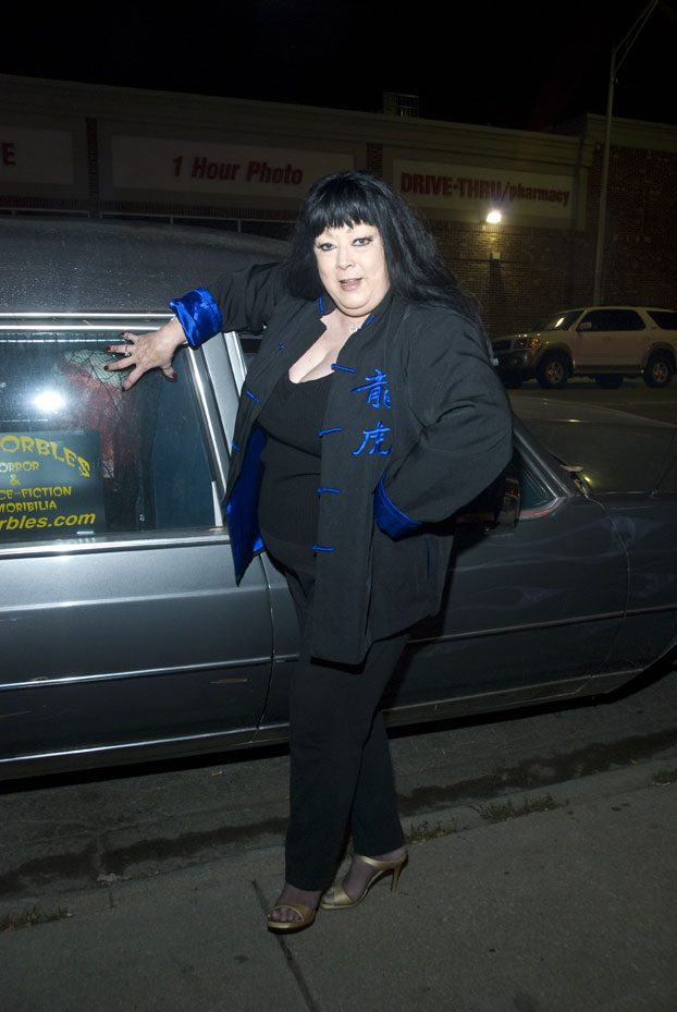 Tura Santana at Horrobles Store in Berwyn, IL, USA, October 31, 2008. Photo by Adam Bielawski